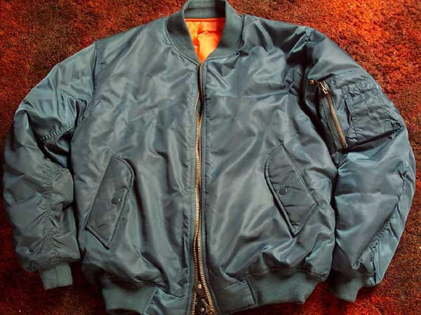 A modern nylon MA-1 bomber jacket in petrol color with orange lining.